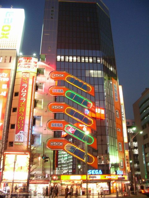 Amusement center example. Akihabara GiGO (SEGA).